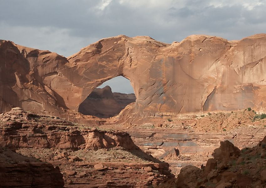 Stevens Arch, on the wall of the Escalante River Canyon near its junction with Coyote Gulch. The arch opening, formed in a layer of Navajo Sandstone, is estimated to be 220 feet wide and 160 feet high.